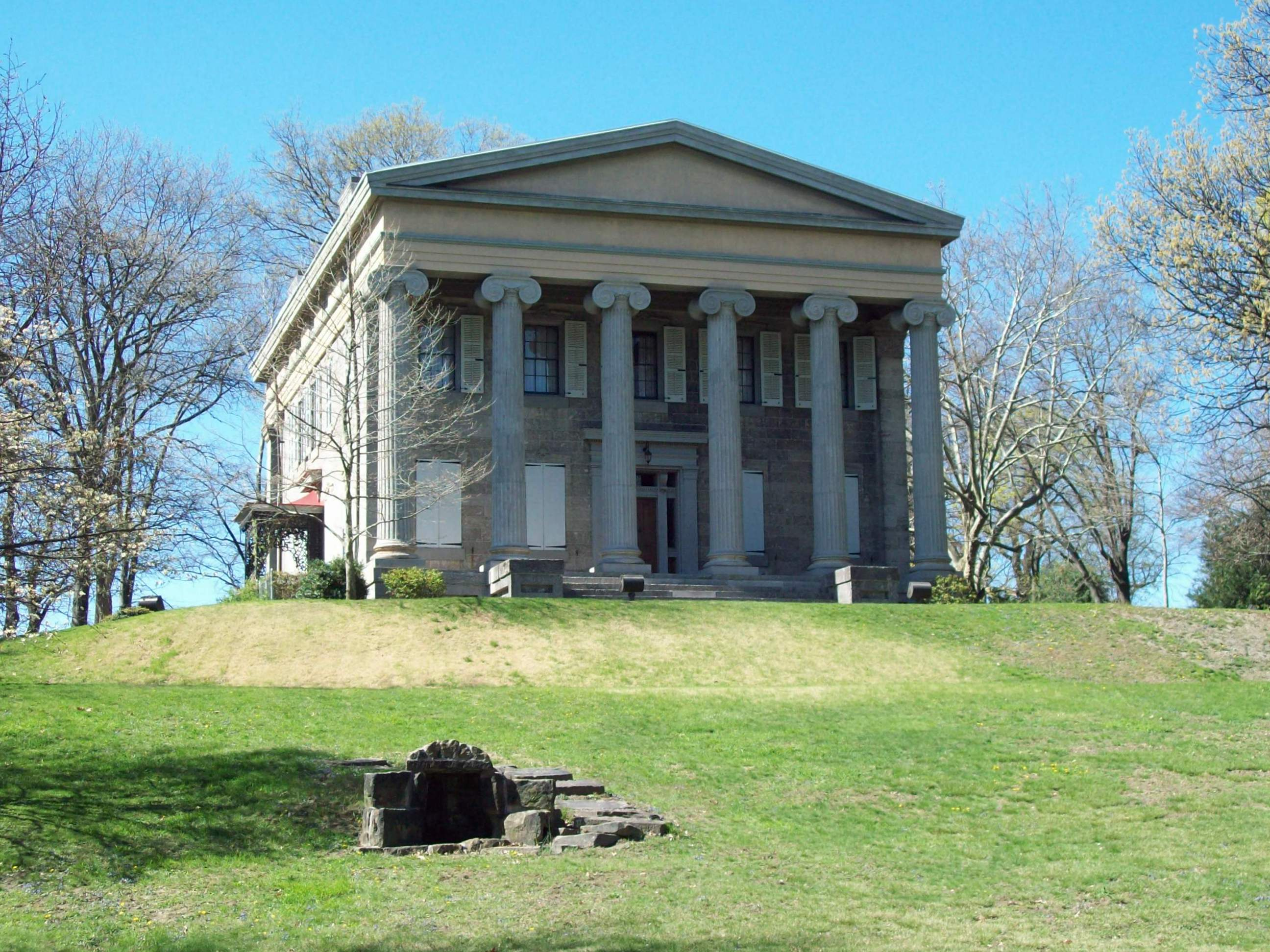 The Baker Mansion — in Altoona, Pennsylvania. On the National Register of Historic Places in Blair County. Taken April 2012